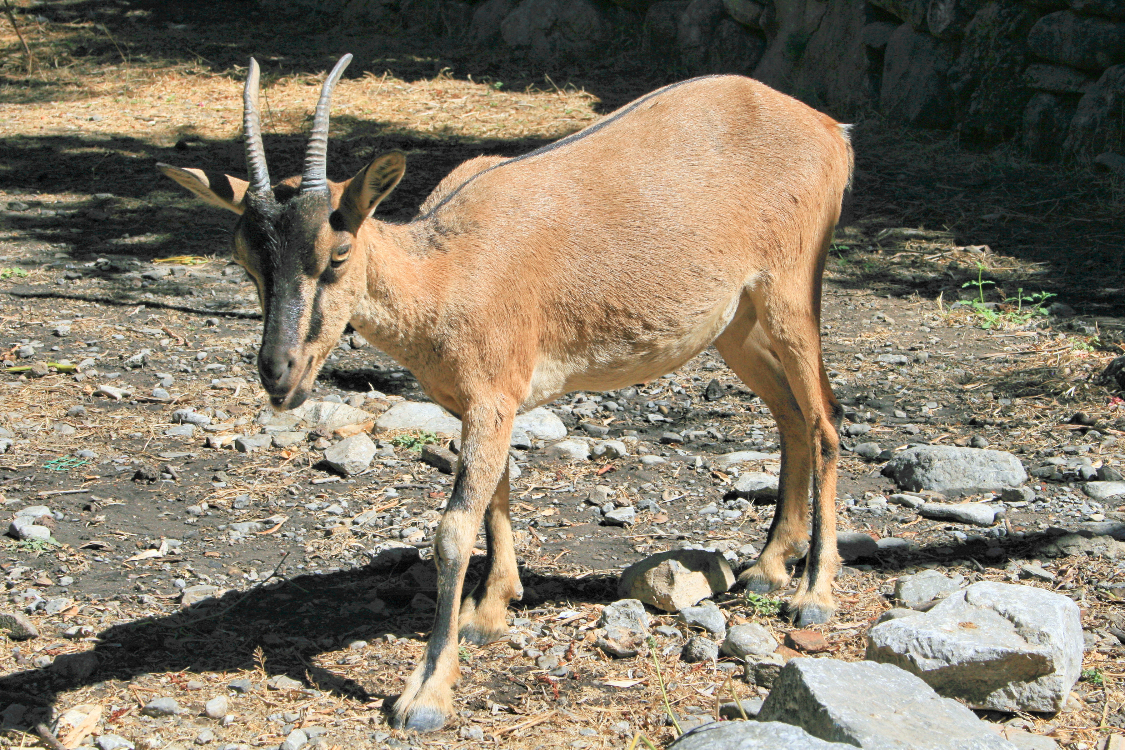 Kri-kri (Capra aegagrus creticus) in the Samariá Gorge national park on the island of Crete